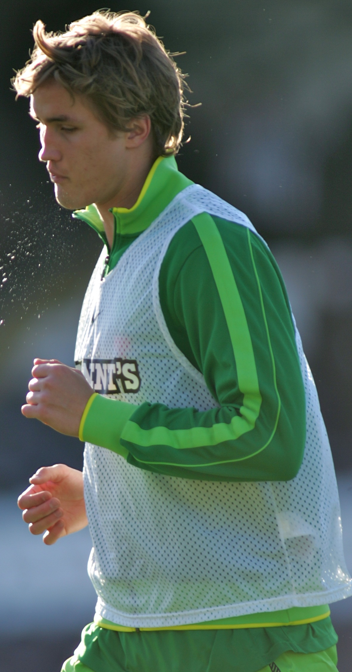 Celtic F.C. player Thomas Rogne warming up before a Scottish Premier League match against St. Mirren F.C. on 14 November 2010.